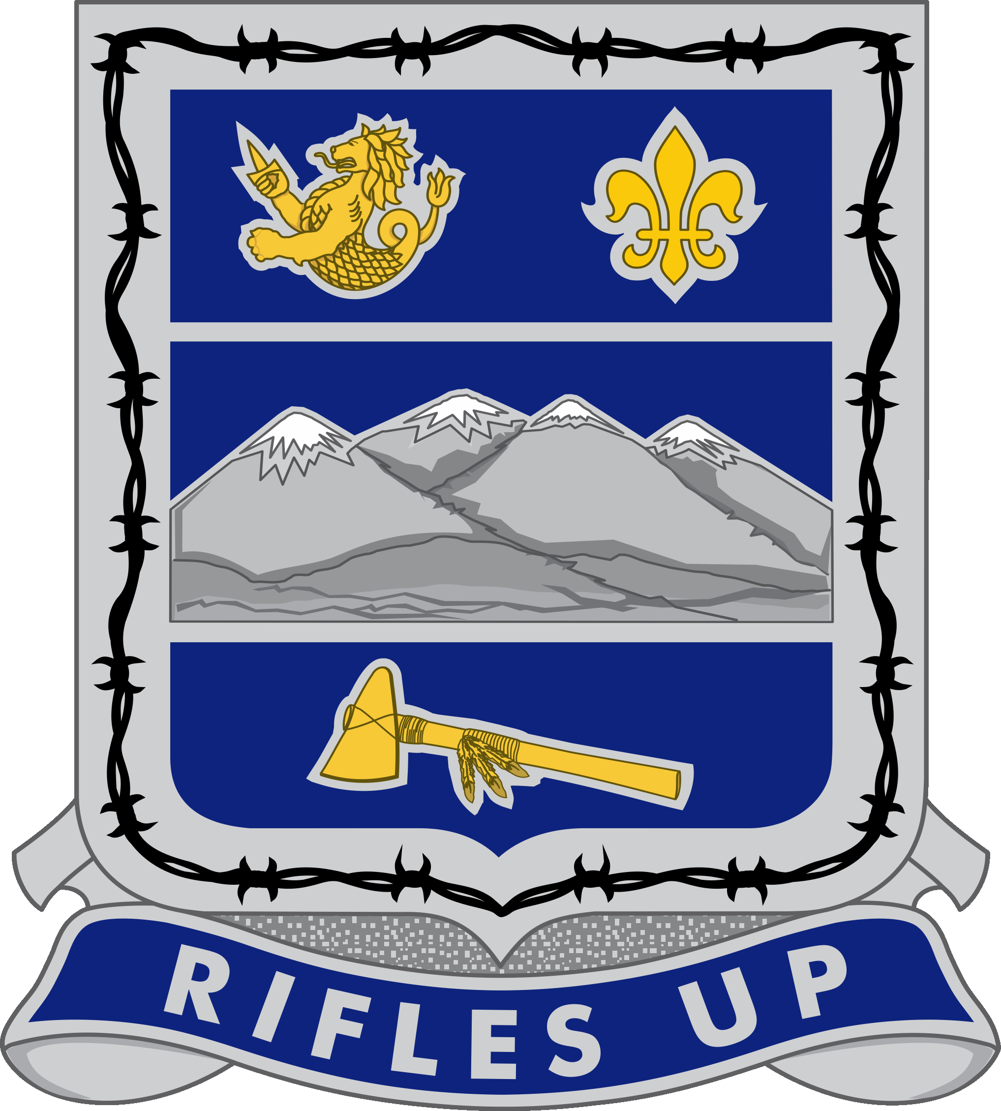 U.S. Colorado Army National Guard's 1st Battalion, 157th Infantry Regiment distinctive unit insignia